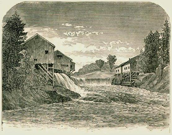 Bonny Eagle Falls, a steel engraving